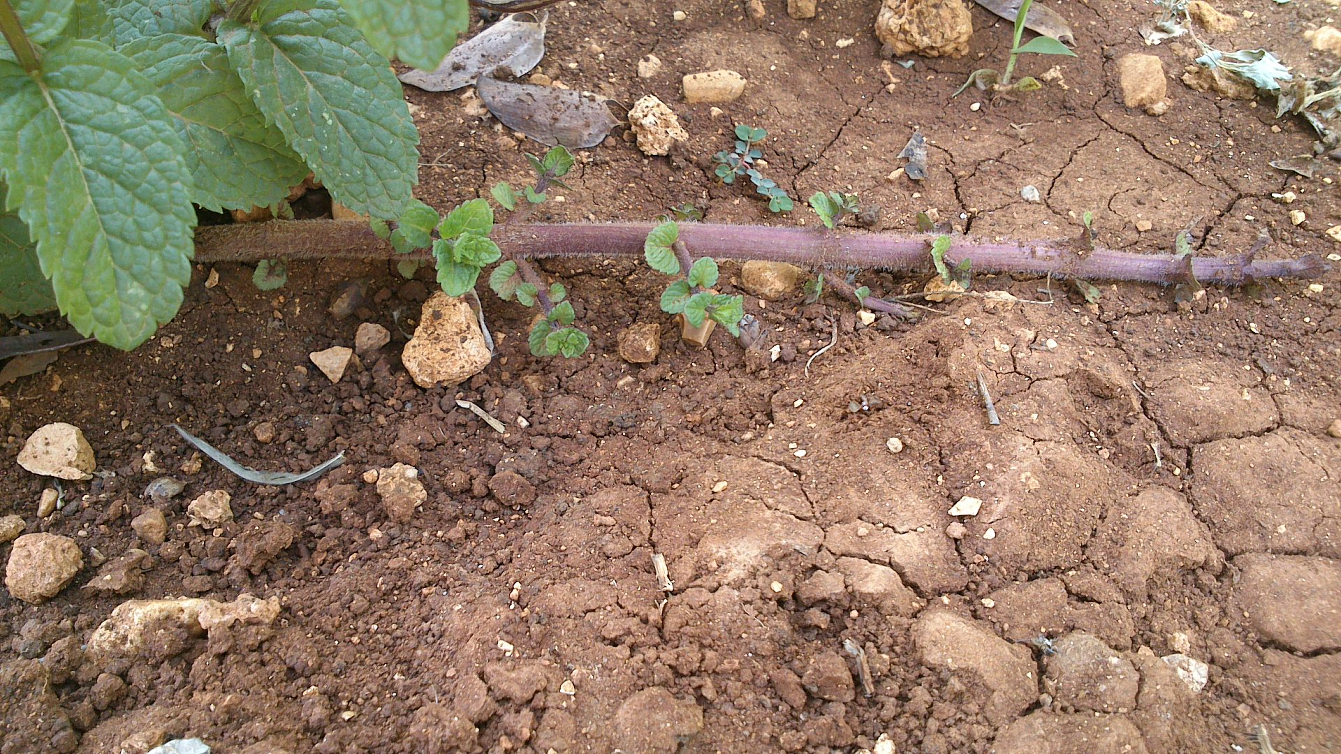 A mentha rhizome, branching fromhis center,into the eath. This branch will become eventually to a root of a separated plant.